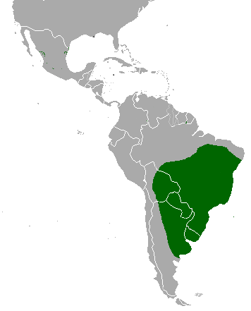 Range map of the Red-winged Tinamou (Rhynchotus rufescens) accroding to Stephen J. Davies: Ratites and Tinamous. Oxford University Press, 2002 ISBN 0-19-854996-2